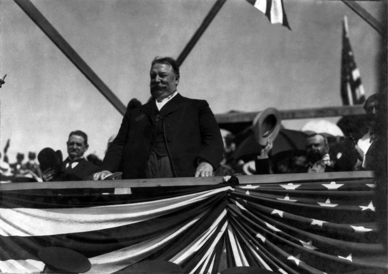 William Howard Taft giving a speech at Fort Ticonderoga, New York